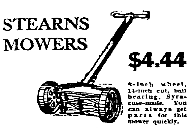 Stearns lawn mower - Made in Syracuse, New York - 1934